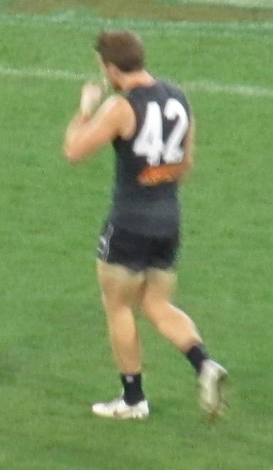 Zach Tuohy playing for Carlton, Round 24, 2011.